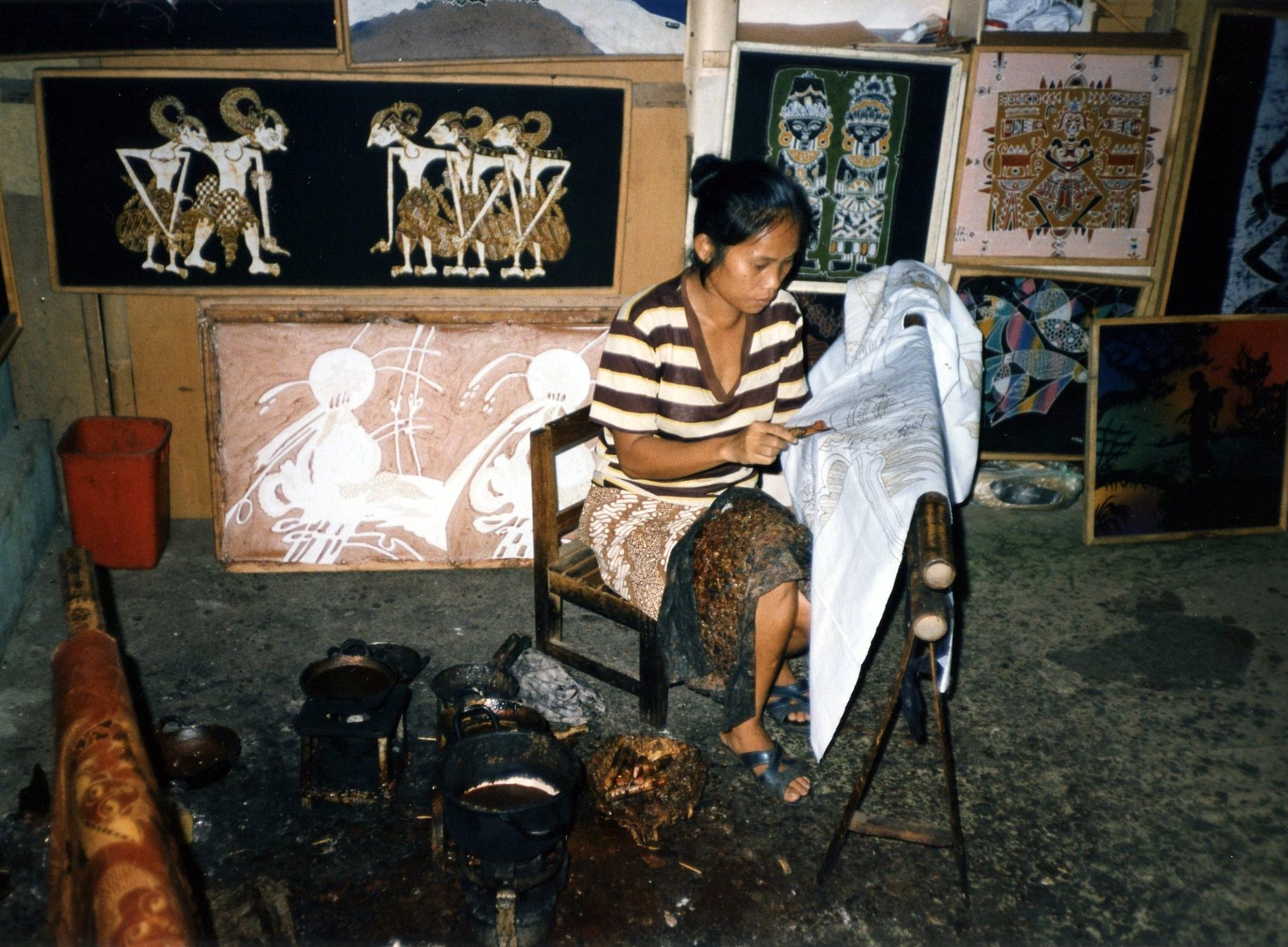 Batik fabric, Yogyakarta, Java, Indonesia